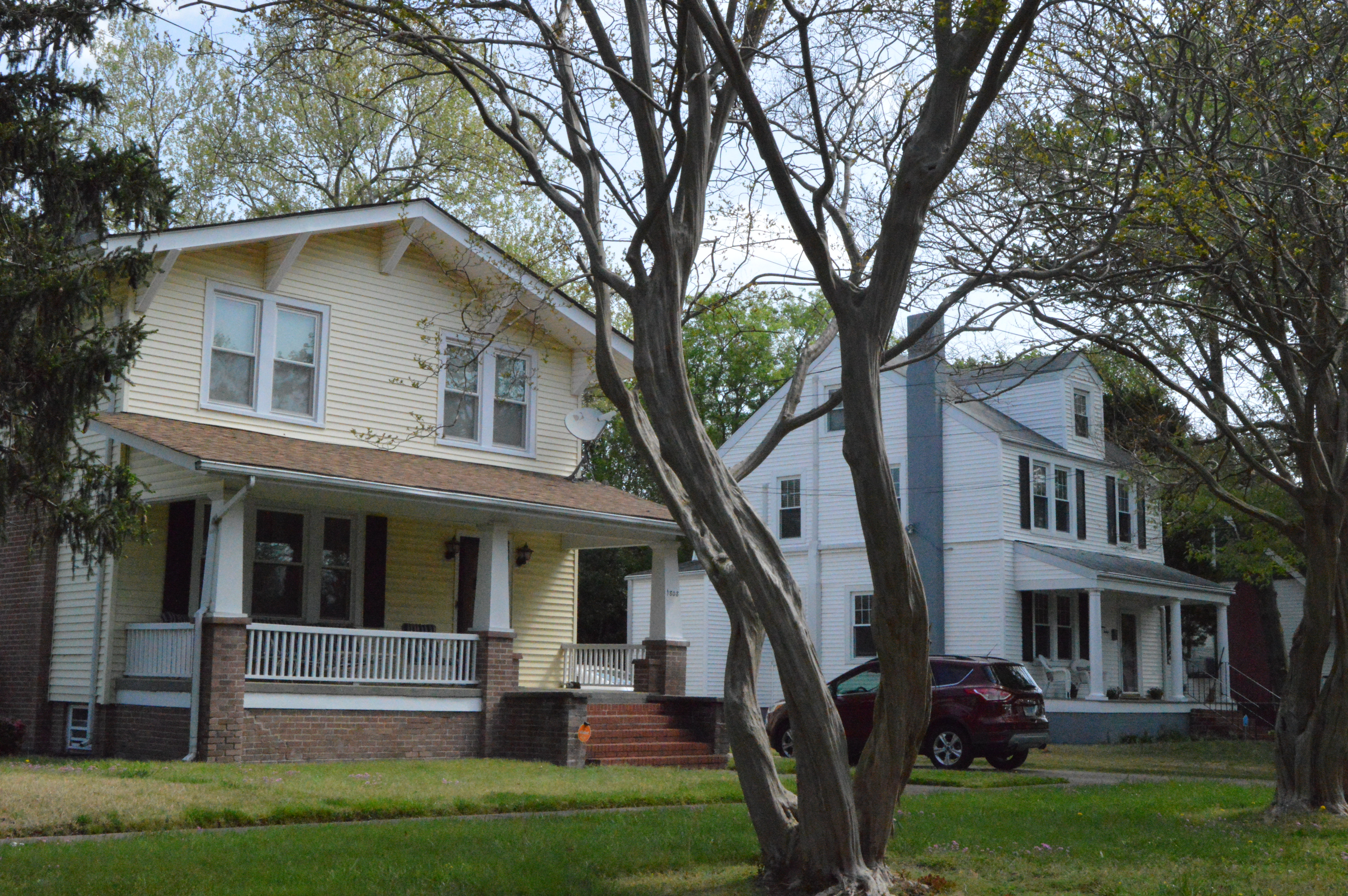 Houses on the northern side of Bellevue Avenue east of the Racine Avenue intersection in Norfolk, Virginia, United States. This block is part of the Lafayette Residence Park, a historic district that is listed on the National Register of Historic Places.